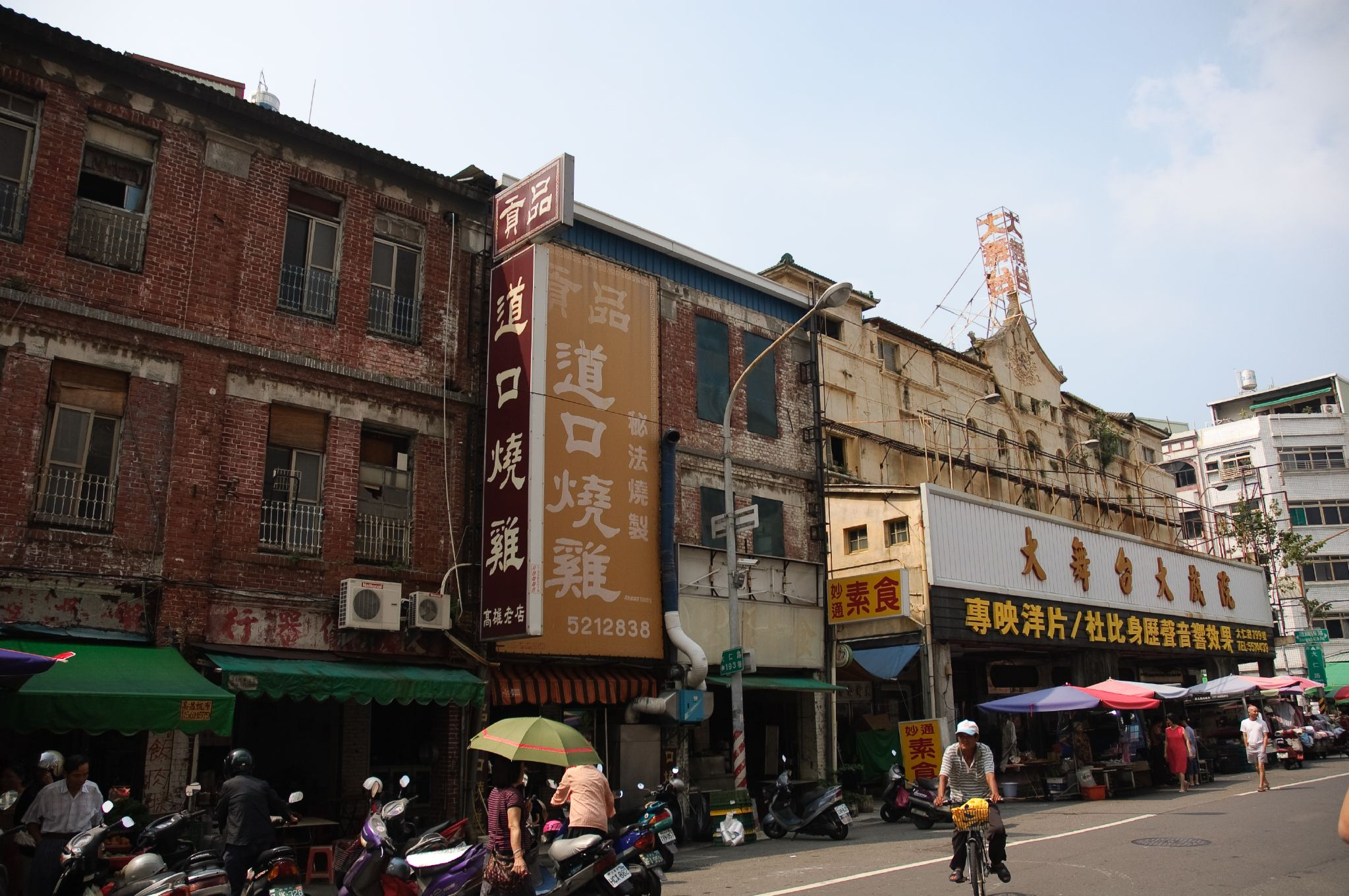 IantiaN-khu, Kohiong; Yancheng District, Kaohsiung